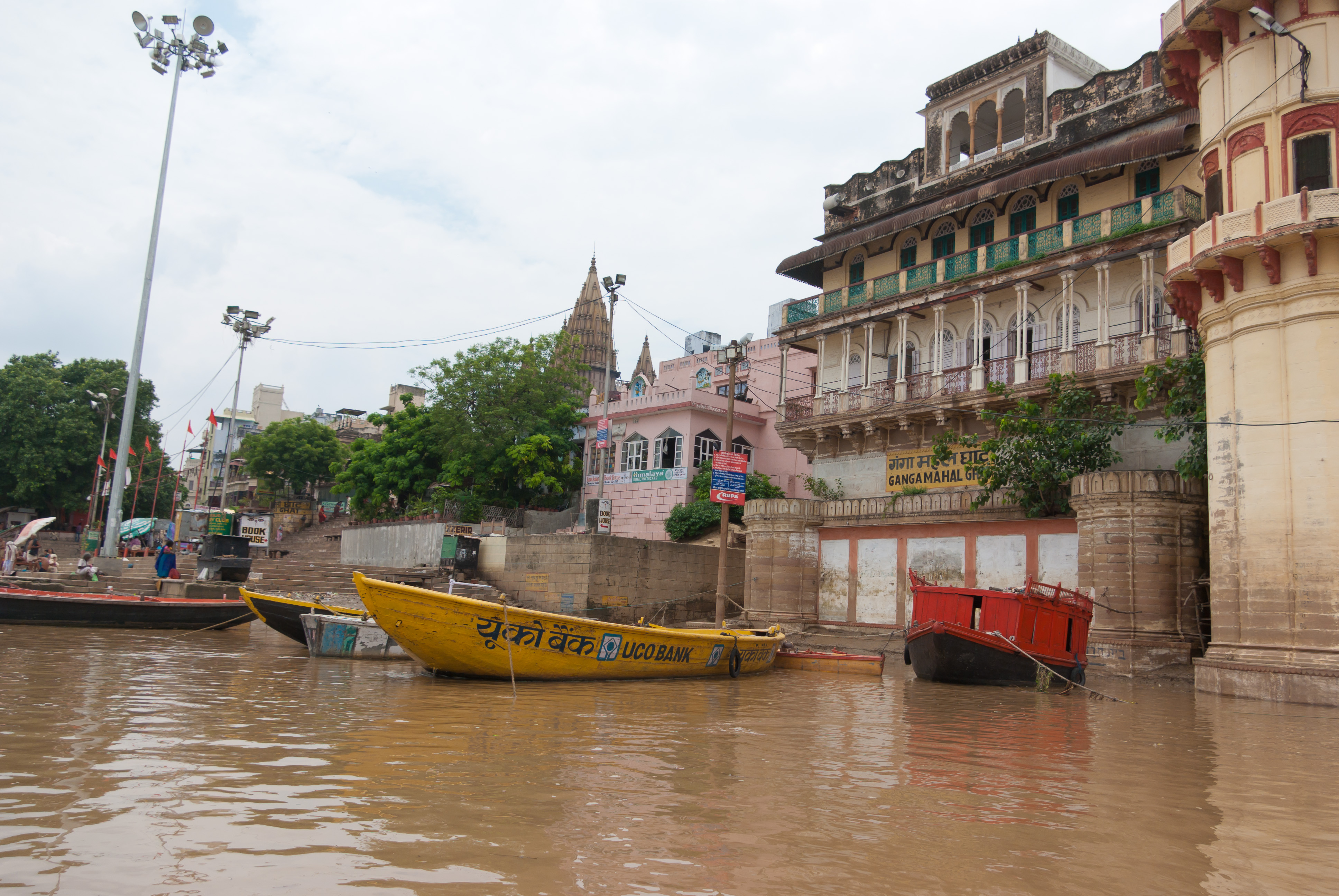 Ganga Mahal Ghat (I) in Varanasi